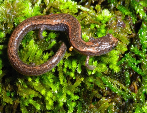 Sequoia slender salamander (Batrachoseps kawia)